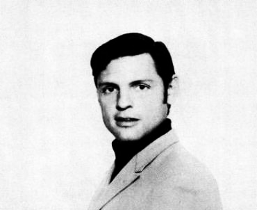 Trade ad for Clay Hart's single "Spring".To better adapt it to his respective Wikipedia article, the ad was cropped and cleaned in a graphics editing program. The original can be viewed at the source below.